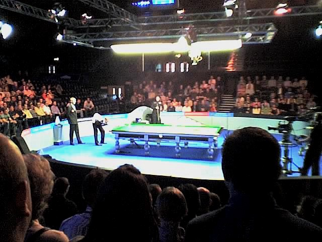 Cameraphone photo from audiance of Wembley Masters Snooker tournament match between Steven Hendry and Matthew Stevens